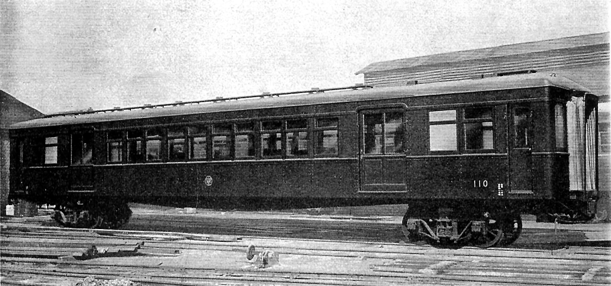 Shinkeihan Railway Type P-6A(Passenger car 6A) EMU No.110